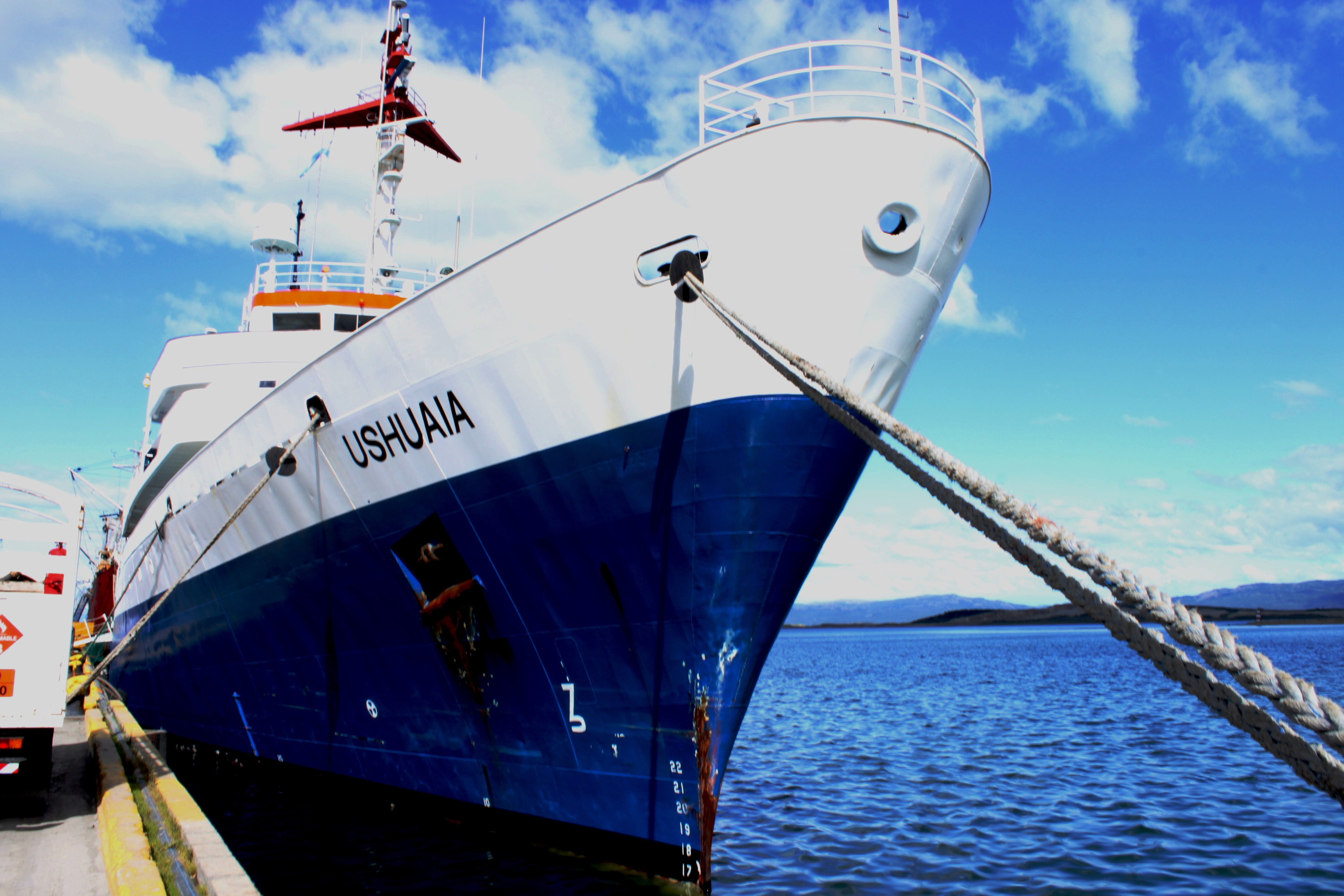 The cruise ship M/V Ushuaia at dock in Ushuaia. It is owned by Antarpply